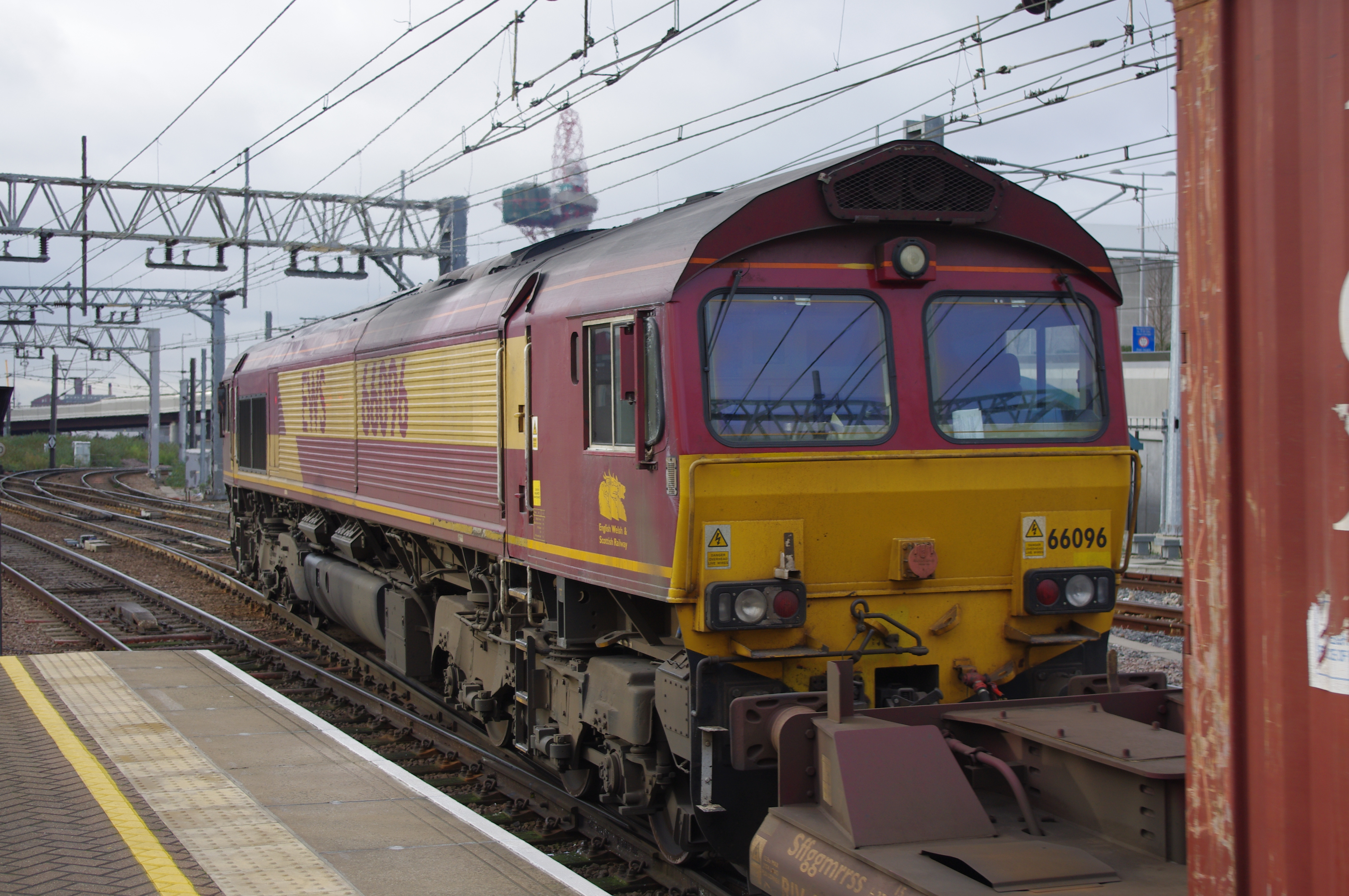 66096 Passes Through Stratford